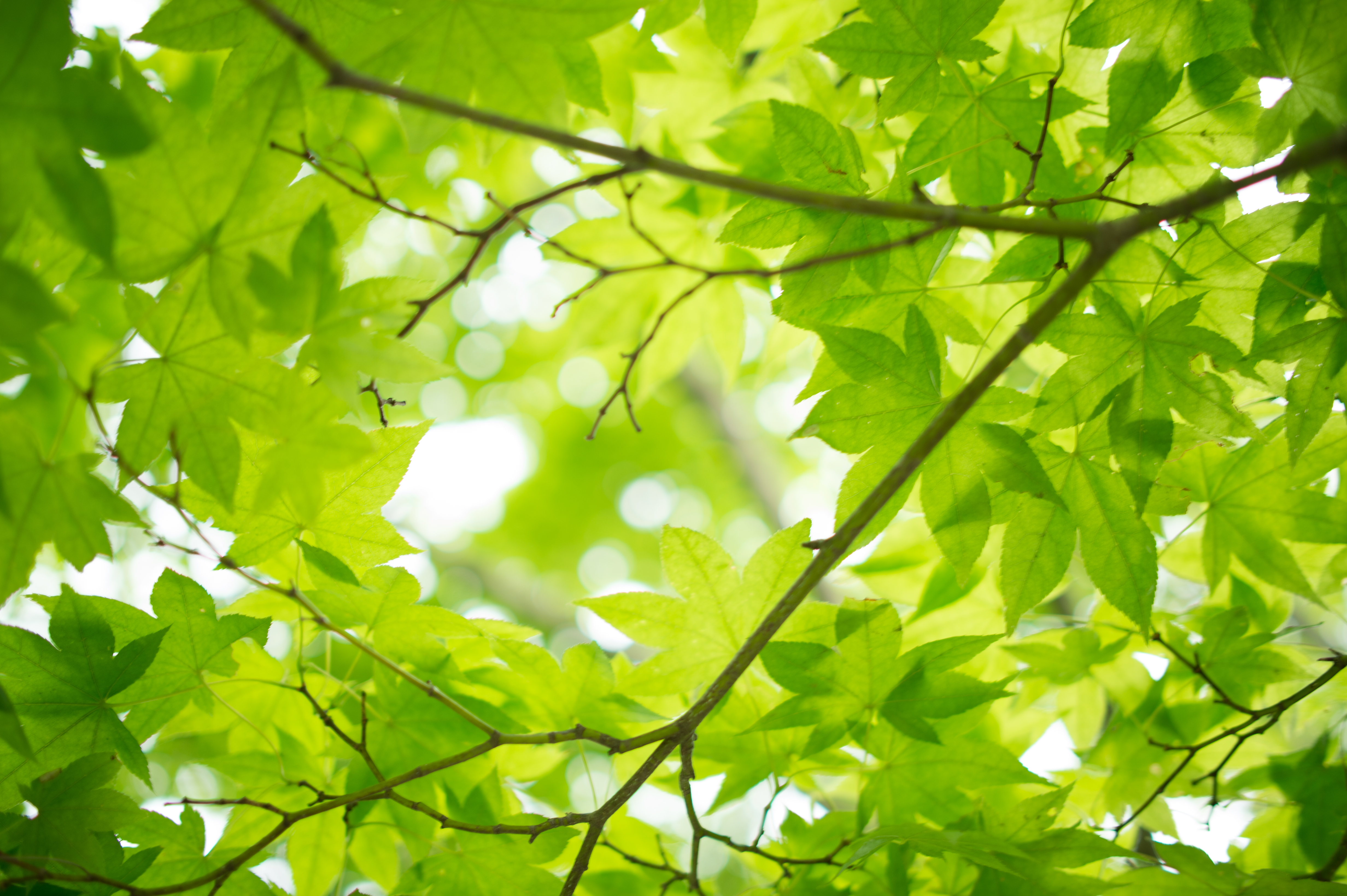 Photographed at Japanese Garden of Showa Kinen Park, Tachikawa Tokyo Japan. [ Nikon D4, Nikon AF-S NIKKOR 28mm f/1.8G, f/1.8, 1/20sec, ISO100 ]